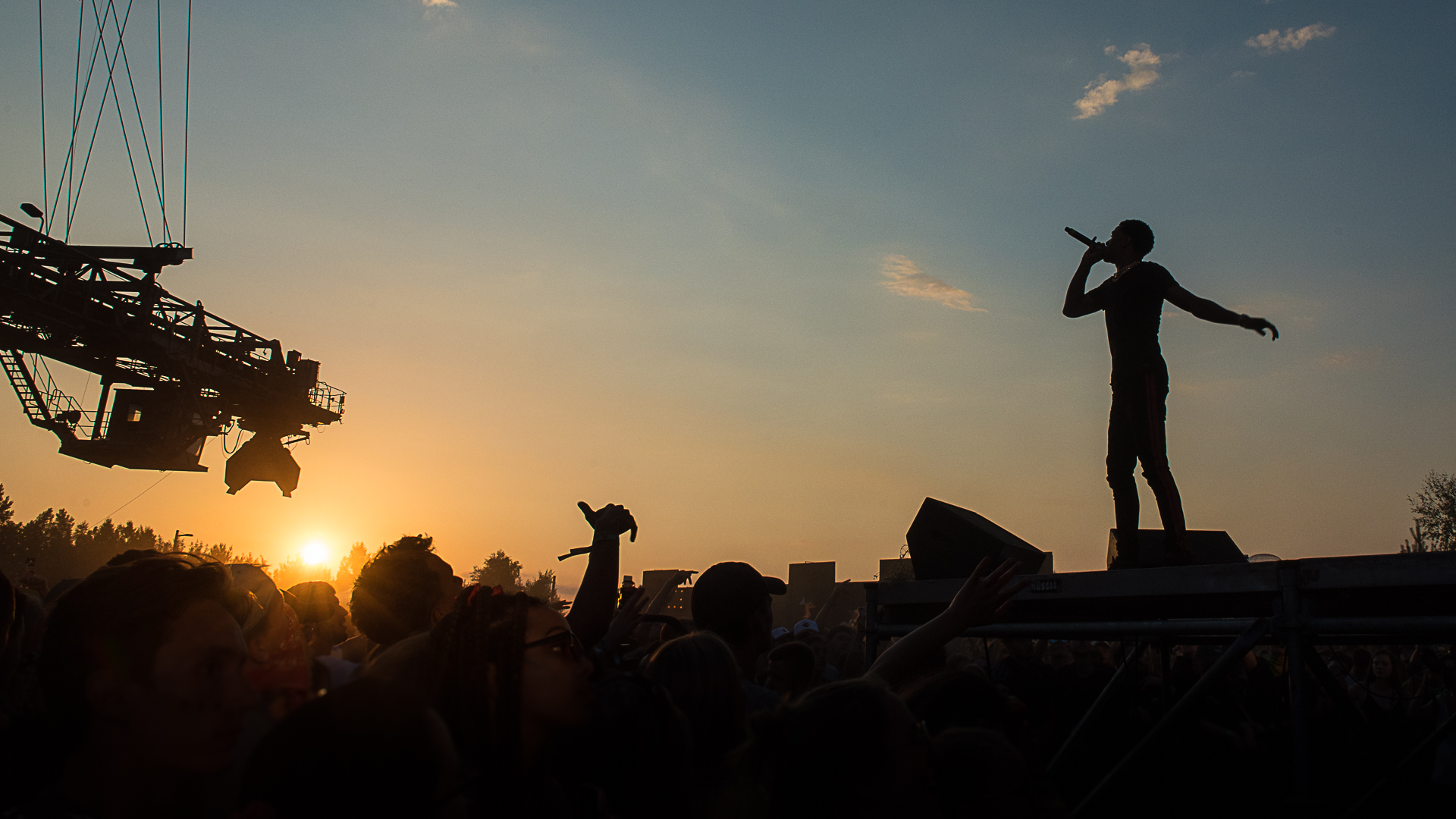 A Boogie wit da Hoodie at Splash!21- Festival (2018)